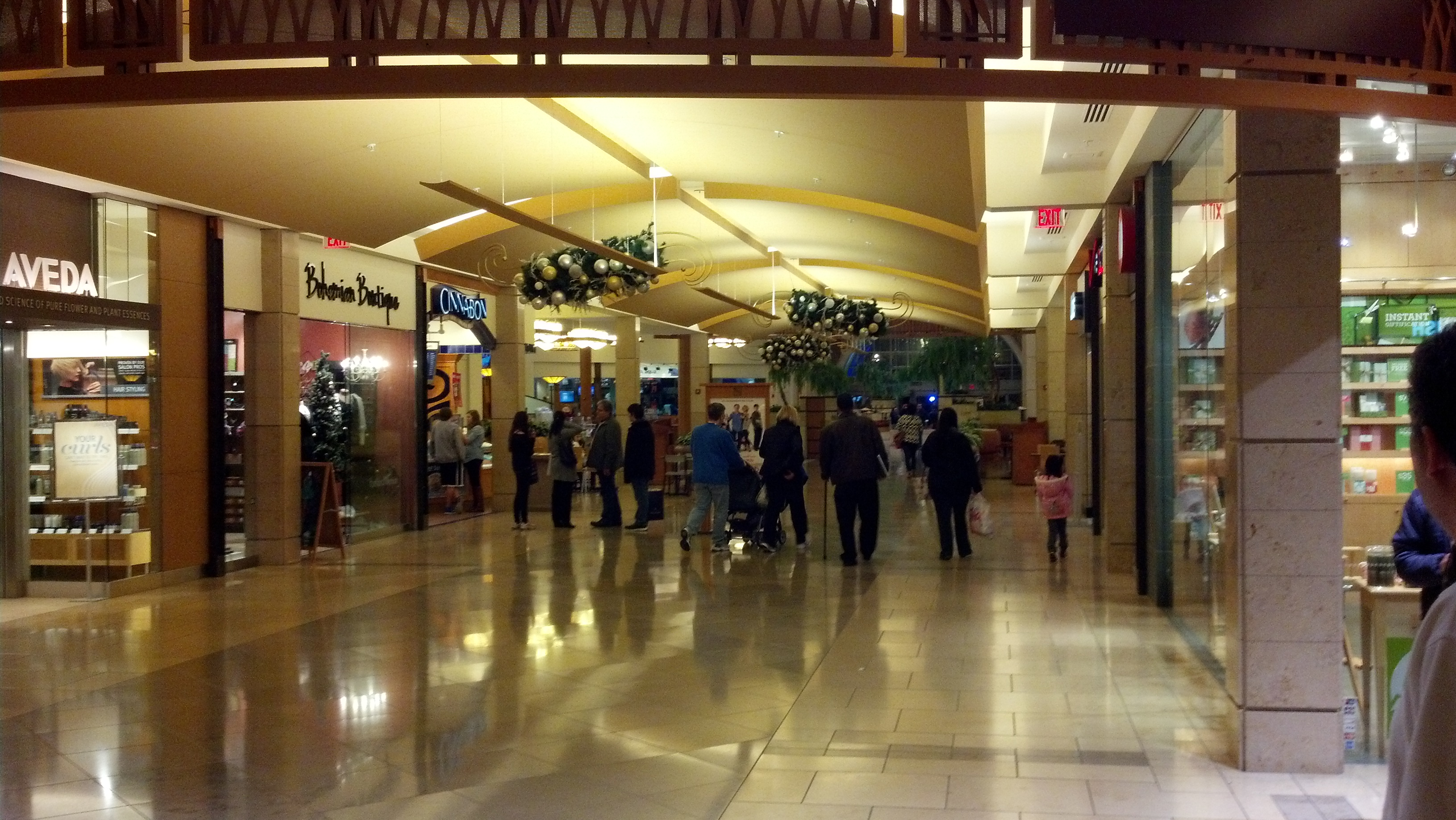 Facing away from the center court and showing the hallway to the food court and more ceiling decorations at Shops at Willowbend.